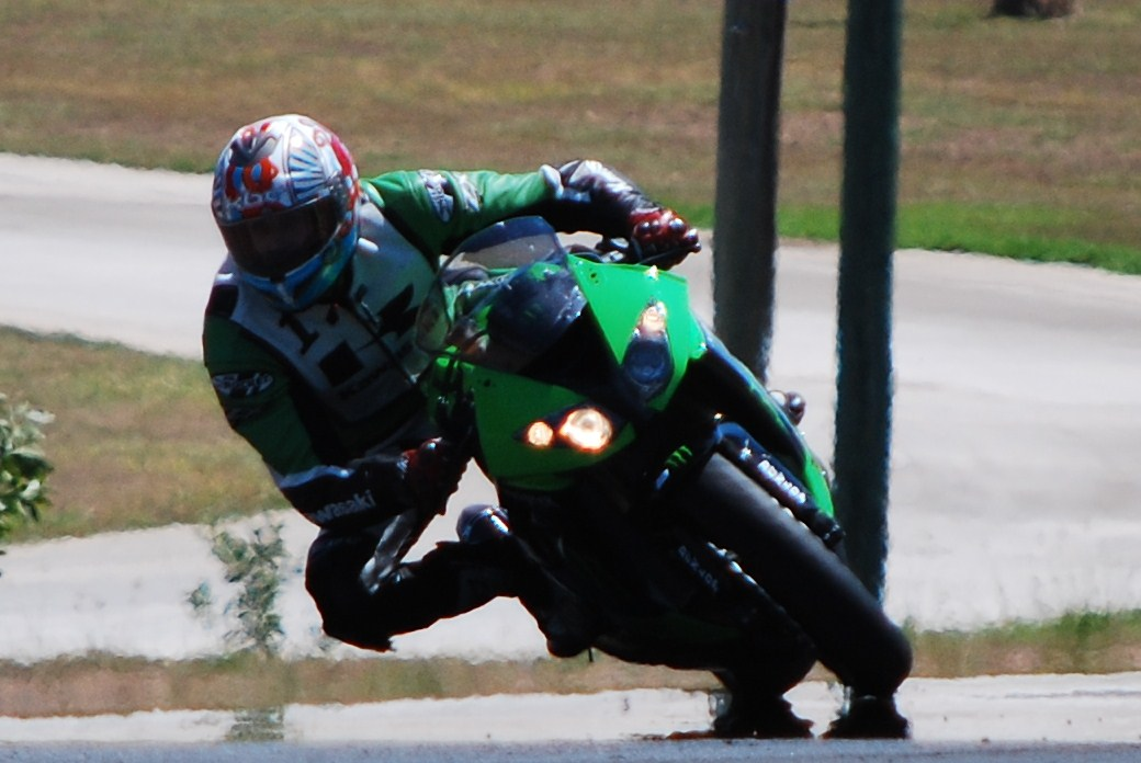 Champion's Ride Day - Lakeside (17)